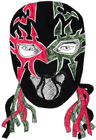 A hand drawing in pen and marker of the mask of professional wrestler Chamuel